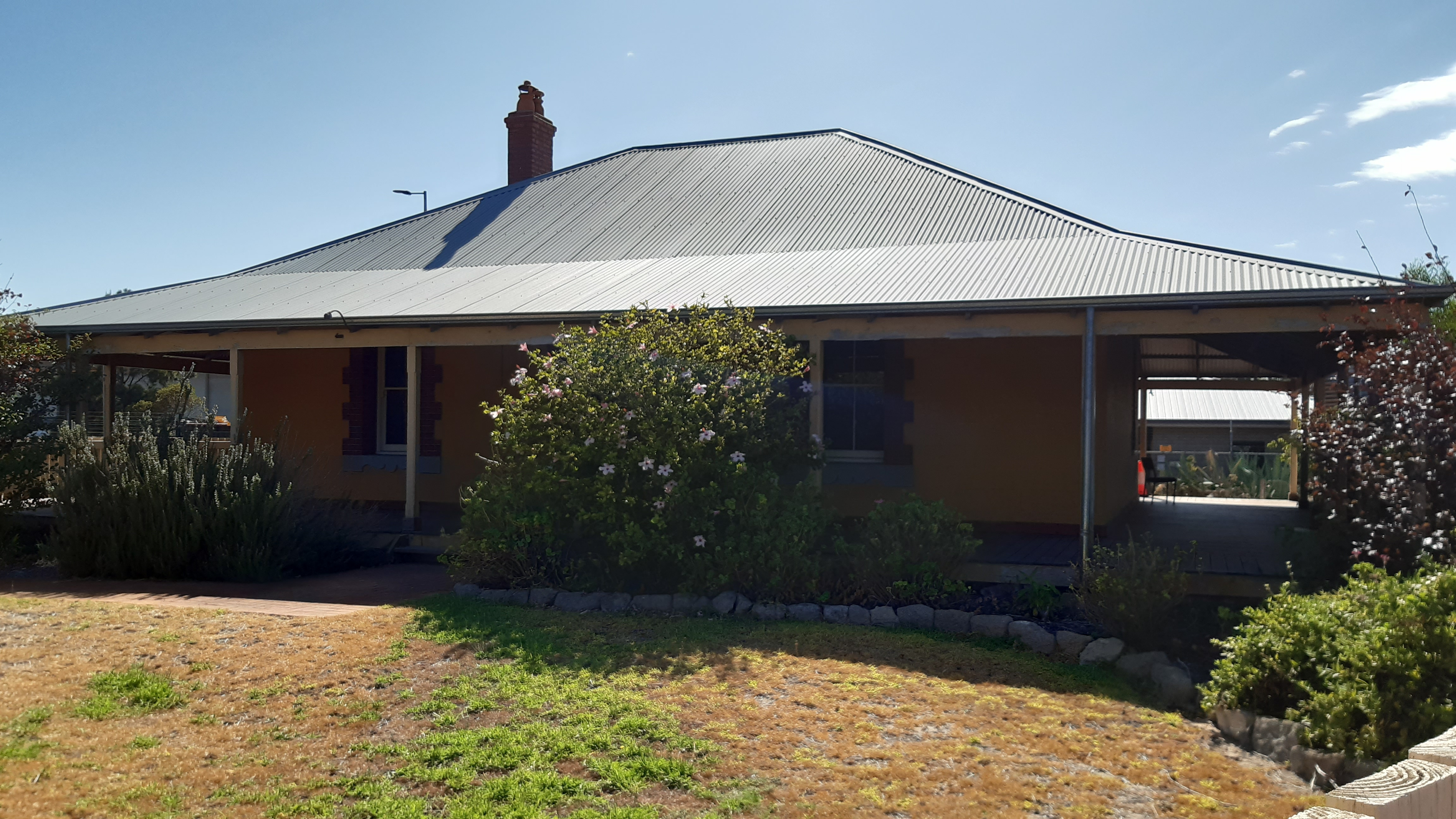 Hymus House, East Rockingham, Western Australia, dating back to 1895.